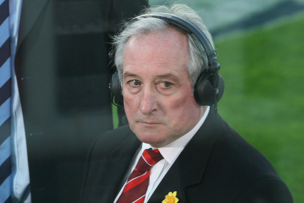 Gareth Edwards, Welsh rugby player.